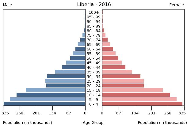 The population pyramid of Liberia illustrates the age and sex structure of population and may provide insights about political and social stability, as well as economic development. The population is distributed along the horizontal axis, with males shown on the left and females on the right. The male and female populations are broken down into 5-year age groups represented as horizontal bars along the vertical axis, with the youngest age groups at the bottom and the oldest at the top. The shape of the population pyramid gradually evolves over time based on fertility, mortality, and international migration trends.